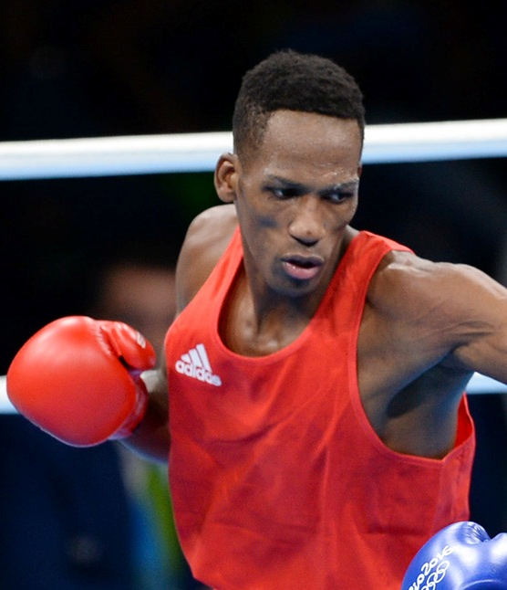 Boxing at the 2016 Summer Olympics, Sotomayor vs Matviychuk